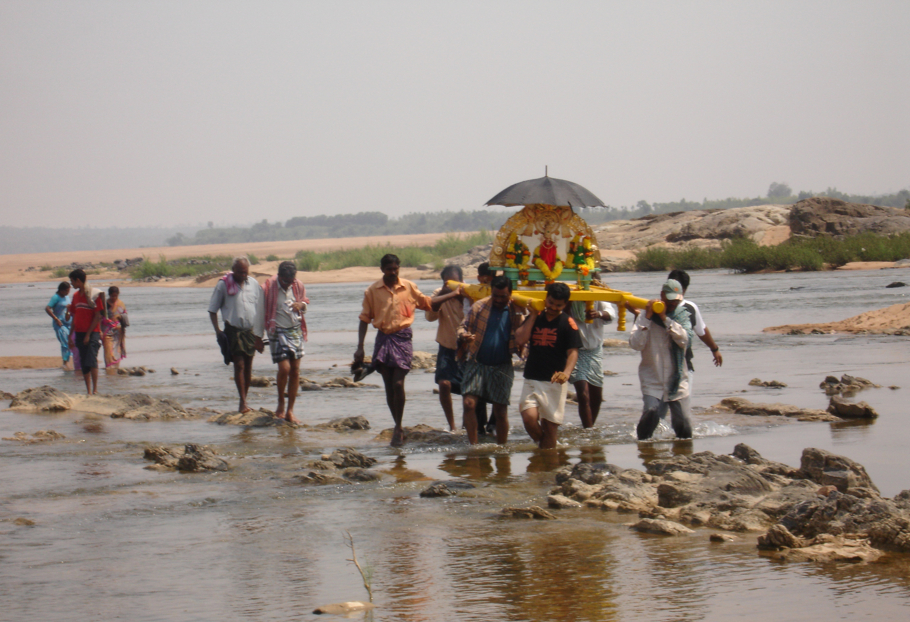 A Procession at Godavari river near Venkatreddypeta, Khammam district, Andhra Pradesh